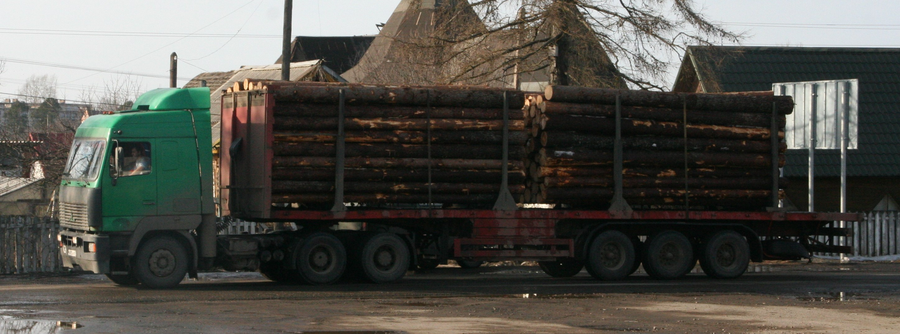 a MAZ-6430 timber truck in northern Russia